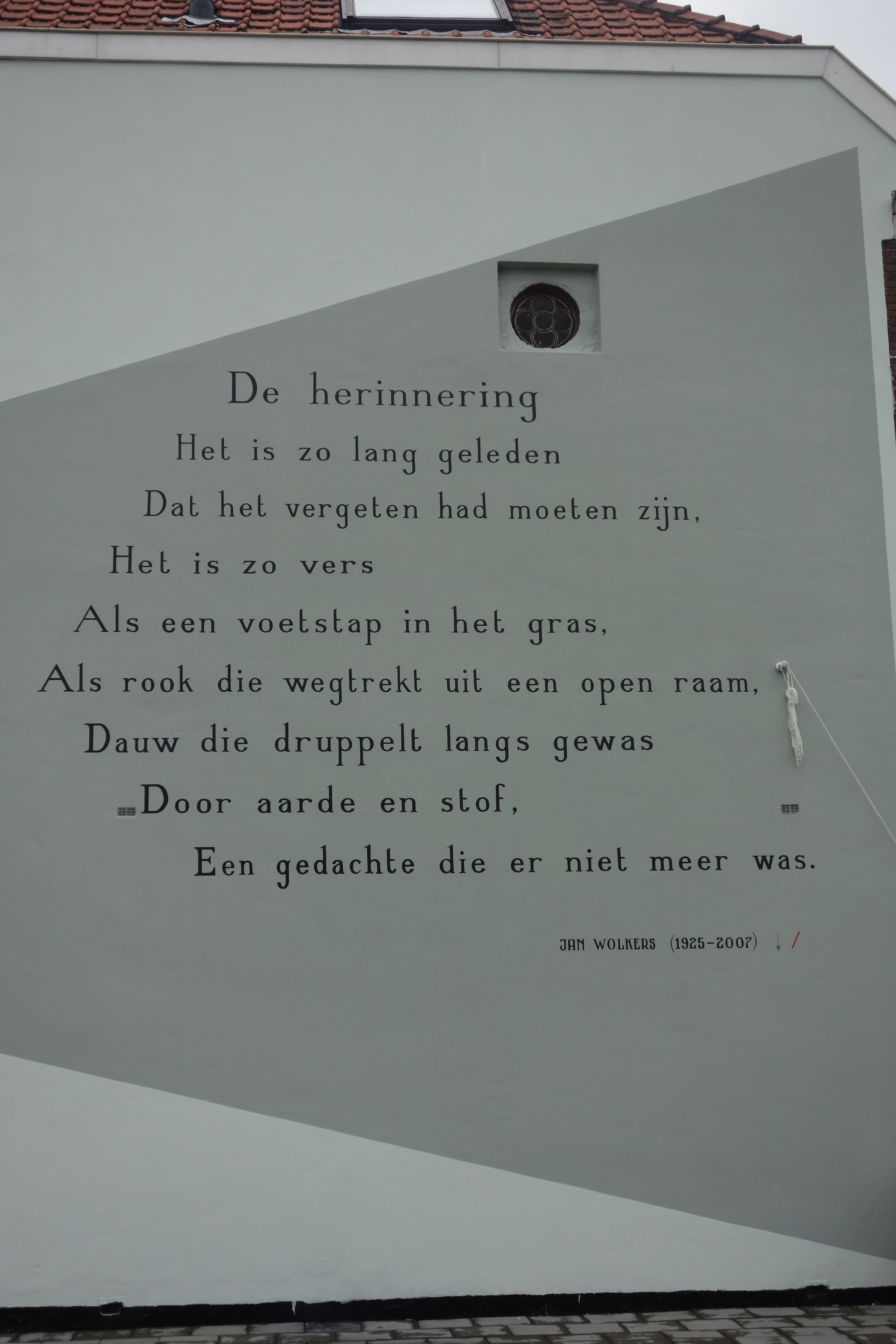 Poem De herinnering by Jan Wolkers on a wall in Deutzstraat, Oegstgeest (the Netherlands)